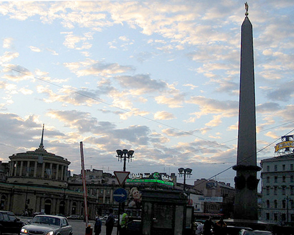 Ploschad Vosstanya in St. Petersburg at 11:00PM on June 28th, 2006. This is an example of the "White Nights" of St. Petersburg in which the sun sets for just a few hours at night and darkness never is complete.Hero-City Obelisk (Leningrad) — is located in Vosstaniya Square in Saint Petersburg — Leningrad. Installed in May 1985 and the fortieth anniversary of the Victory Day (May 9) in Great Patriotic War. The author of the monument — architect V.S.Lukyanov.